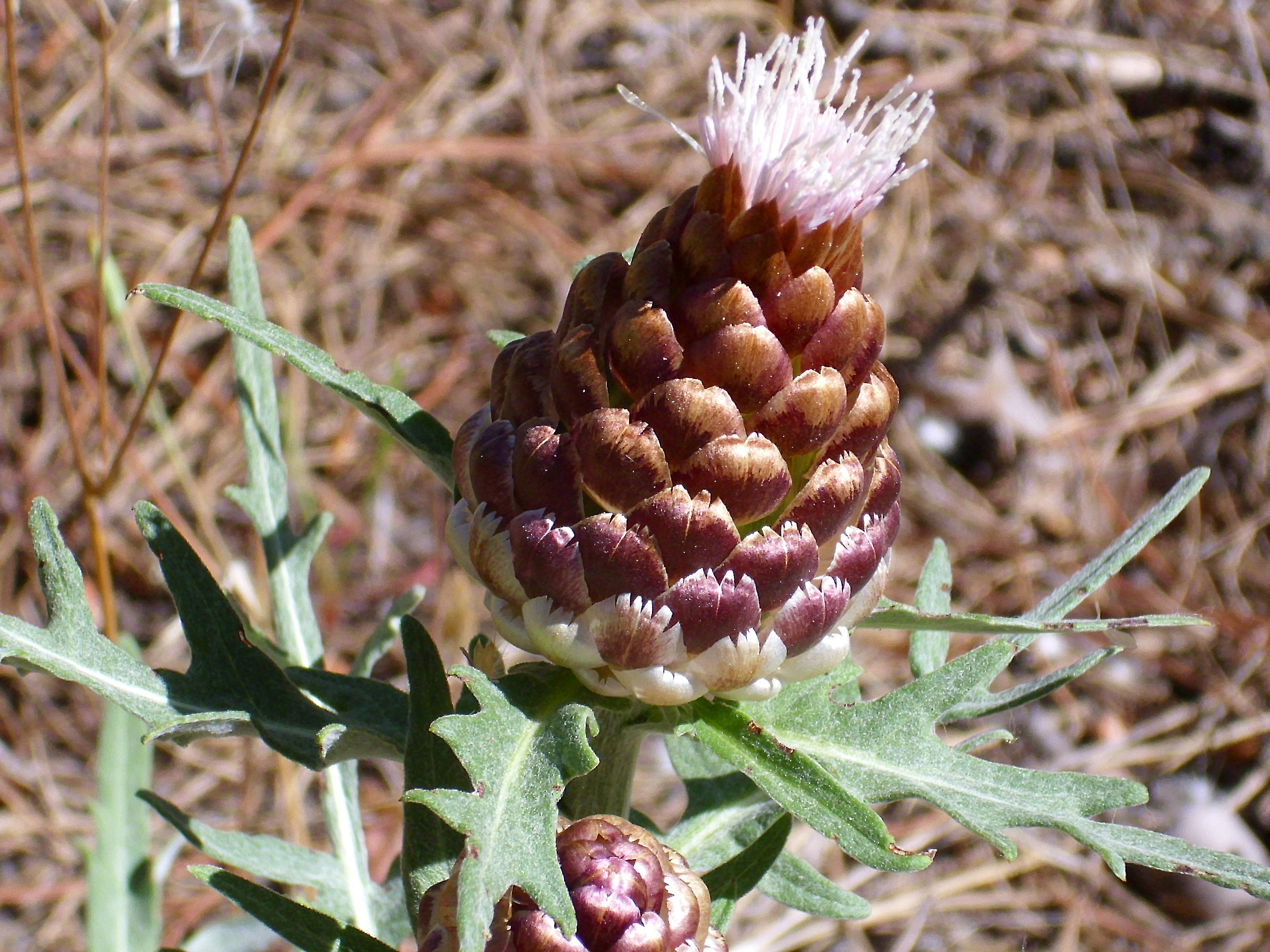 Rhaponticum coniferum Inflorescence, Dehesa Boyal de Puertollano, Spain